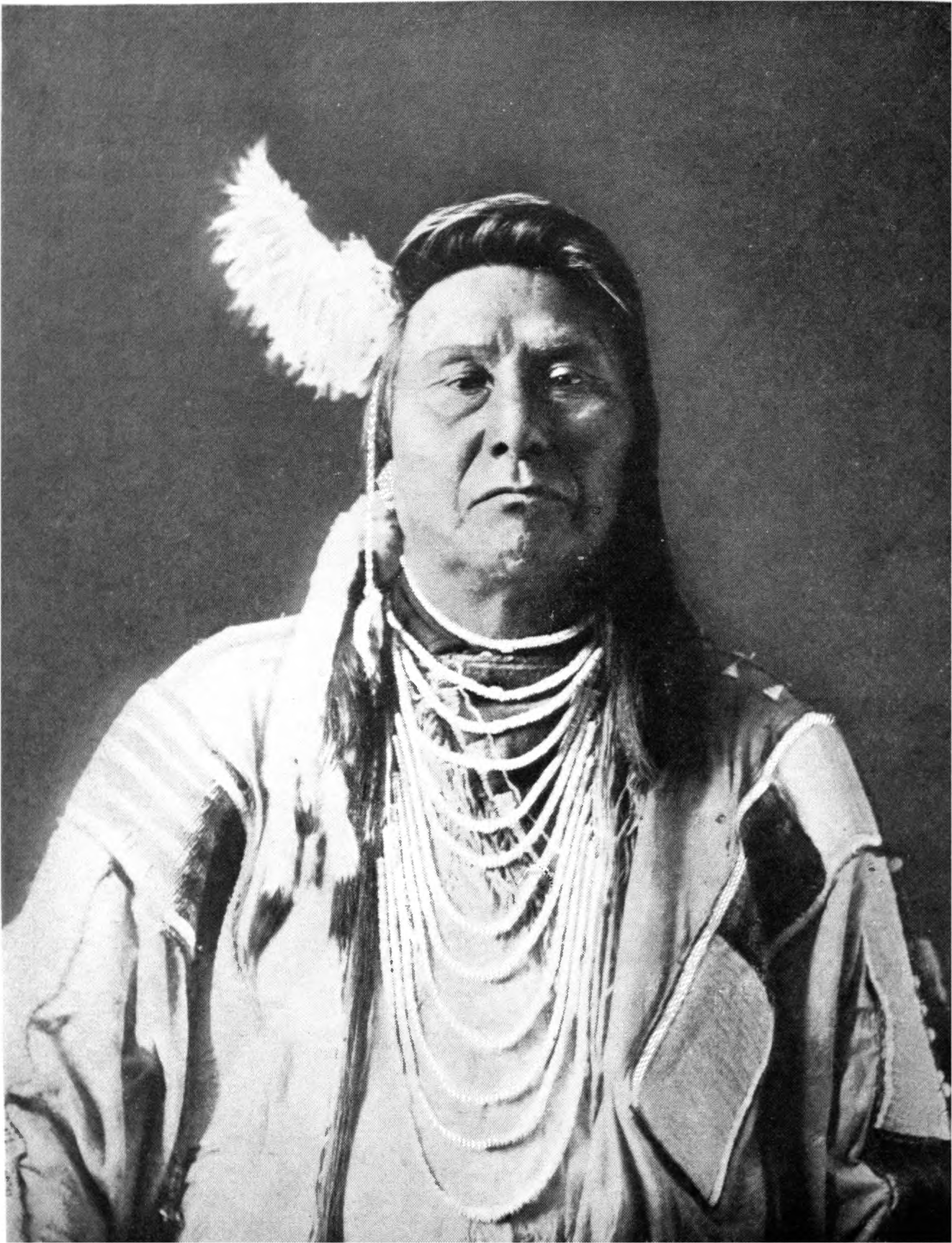 Illustration from The Indian Dispossessed by Seth K. Humphrey, 1906.